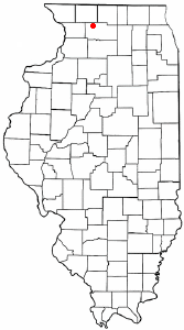 Category:Illinois city locator maps